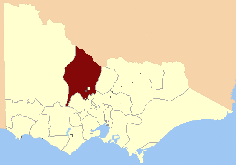 Electoral district of Loddon, Victorian Legislative Assembly. 1856